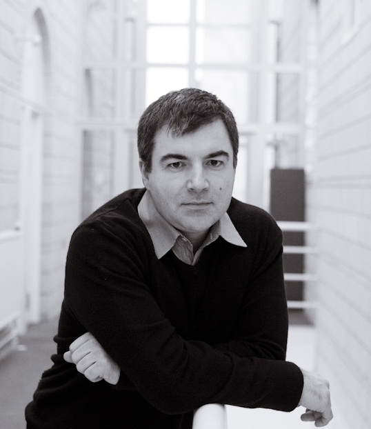 Konstantin Novoselov portrait